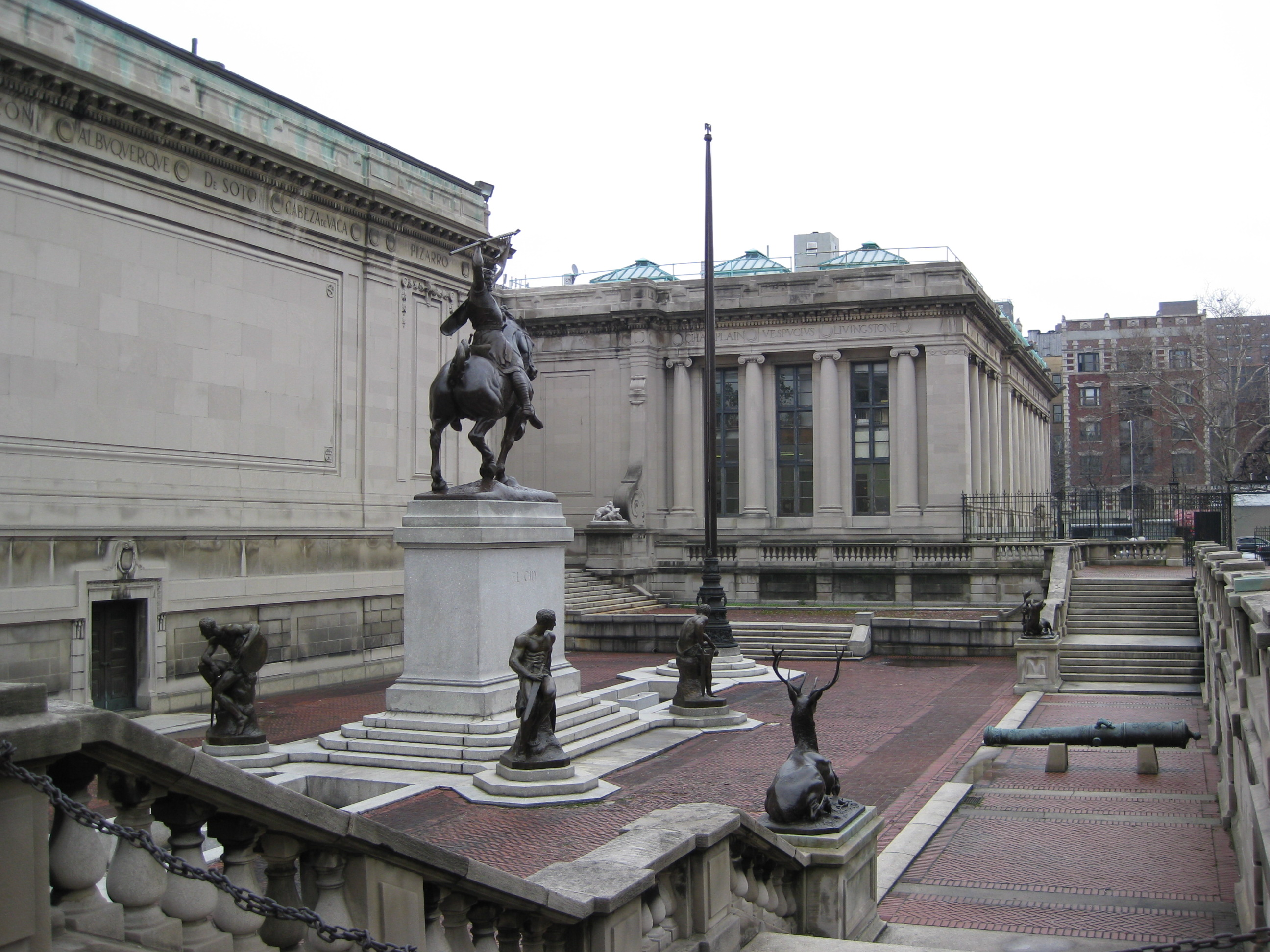 El Cid by Anna Hyatt Huntington stands to the right of the Hispanic Society of America Library on the Audubon Terrace plaza. Behind it can be see seen the former American Geographic Society building, now Boricua College.